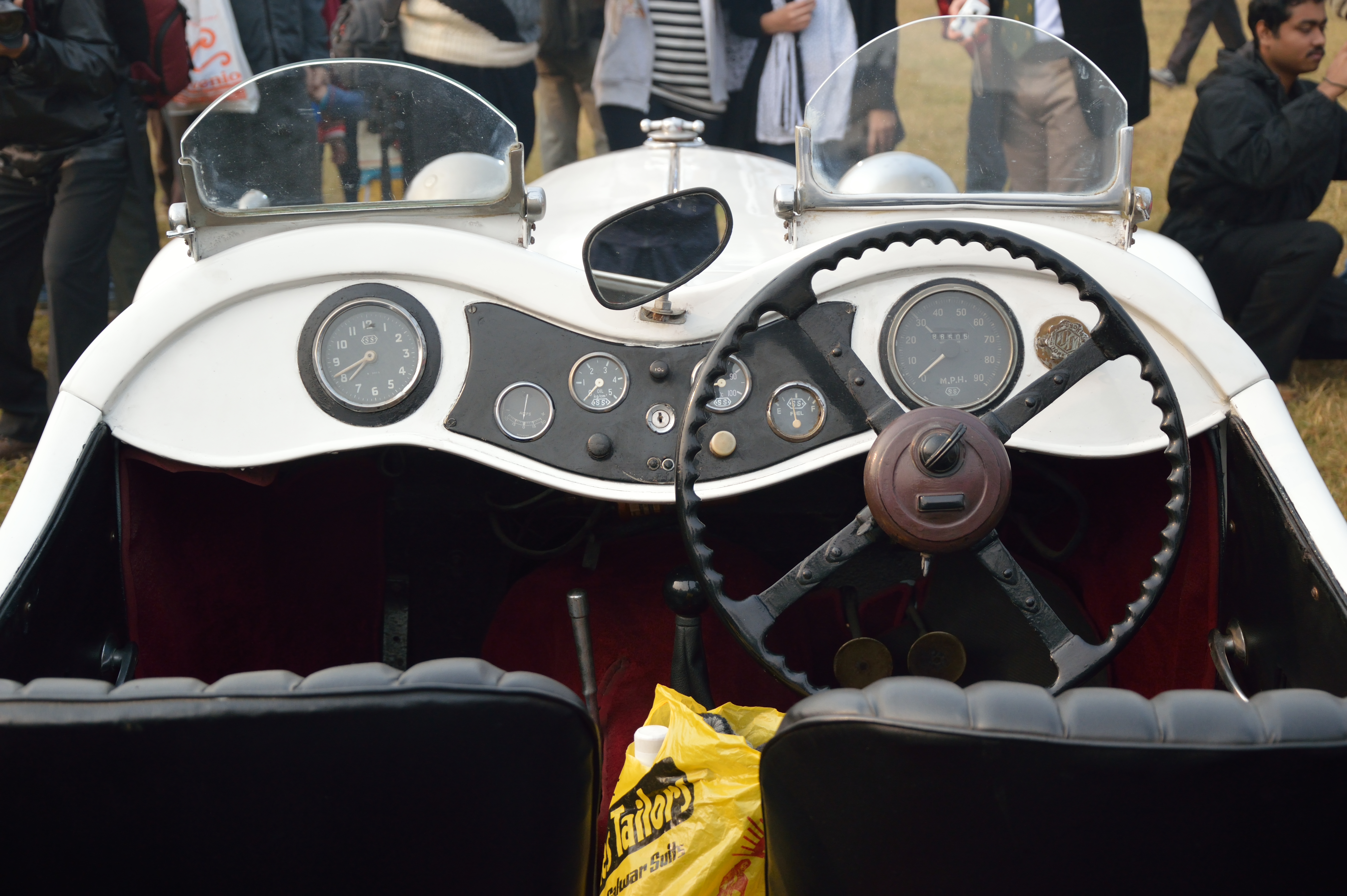 This car was exhibited and ran during ‘The Statesman Vintage & Classic Car Rally 2013’ from the Eastern Command Sports Stadium of Fort William, Kolkata to the same via: Rabindra Sadan, Esplanade, Central avenue, Bhupen Bose avenue, Shaymbazaar five points crossing, APC Roy road, AGC Bose road Park Circus seven points, Gariahat flyover, Gol park, Rabindra Sarover, SP Mukherjee road, Hazra Road, Alipore road and Strand road, the route covers 31.32 km. The rally was held at chilled morning on 13 January 2013 at the ECS Stadium, where 170 entrants were participated with cars and bikes manufactured from 1906 to 1978. This one day festival takes place on the second Sunday of every January in Kolkata since 1968 with full of period costume and cultural period pieces.